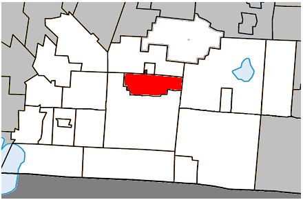 Location of Cowansville, Quebec within Brome-Missisquoi Regional County Municipality.